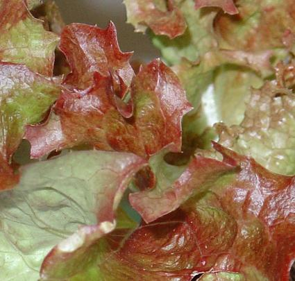 A close up shot of Anubi looseleaf lettuce.